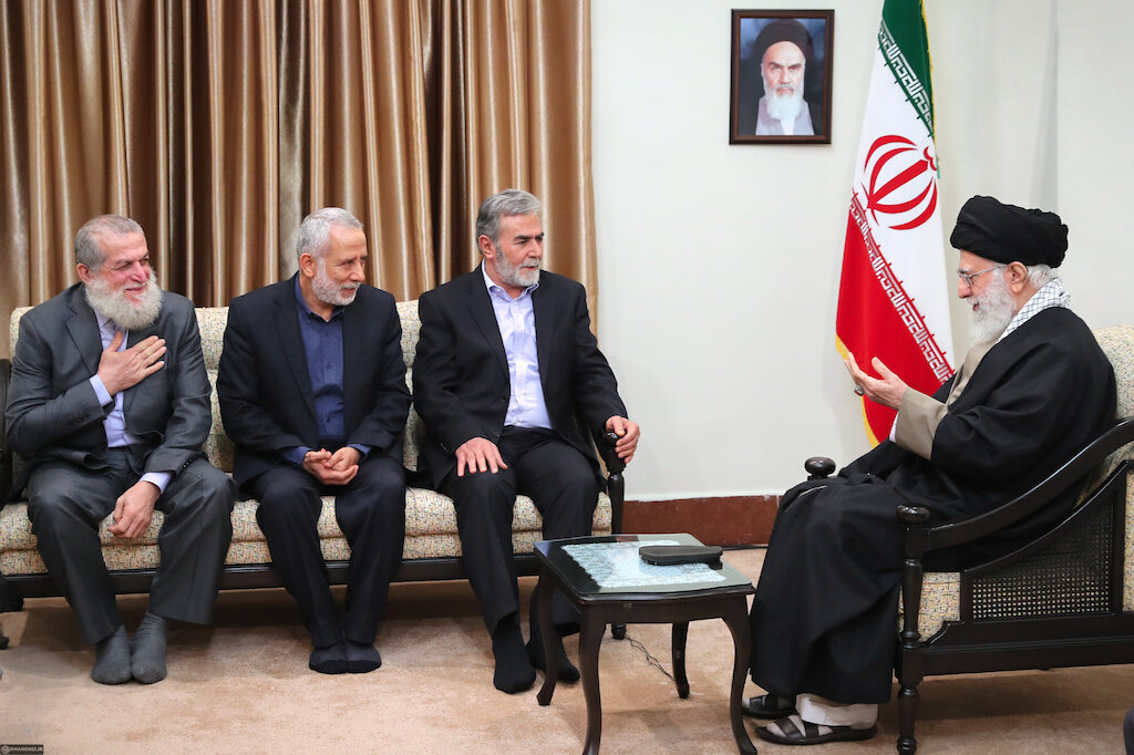 Ayatollah Ali Khamenei met with the secretary general of the Palestinian Islamic Jihad movement Ziyad Al-Nakhaleh